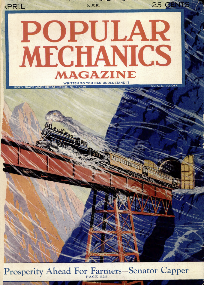 Front cover of Popular Mechanics, April 1924